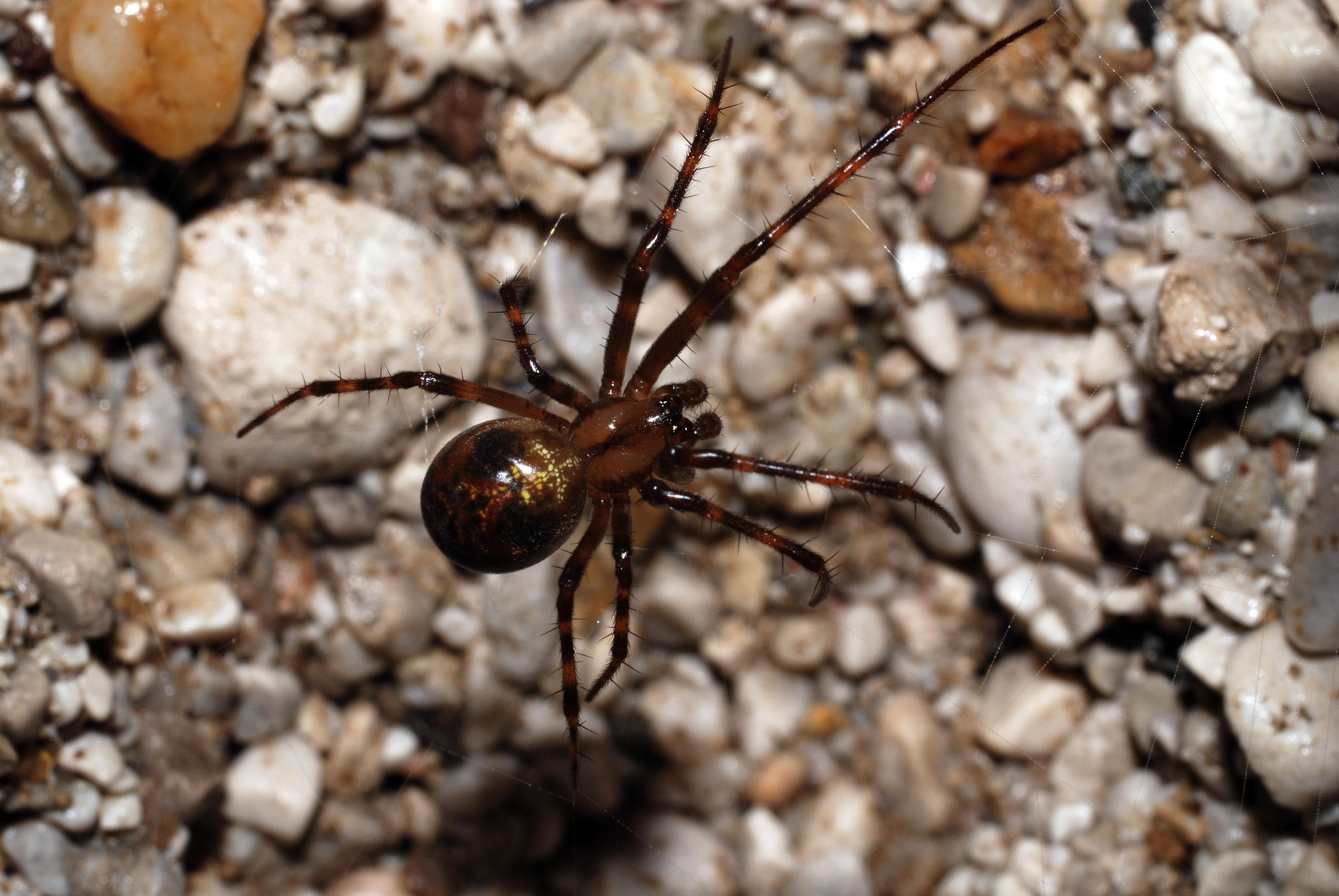 Meta menardi, in Devilscave (Teufelshöhle) near Kremsmünster, Austria